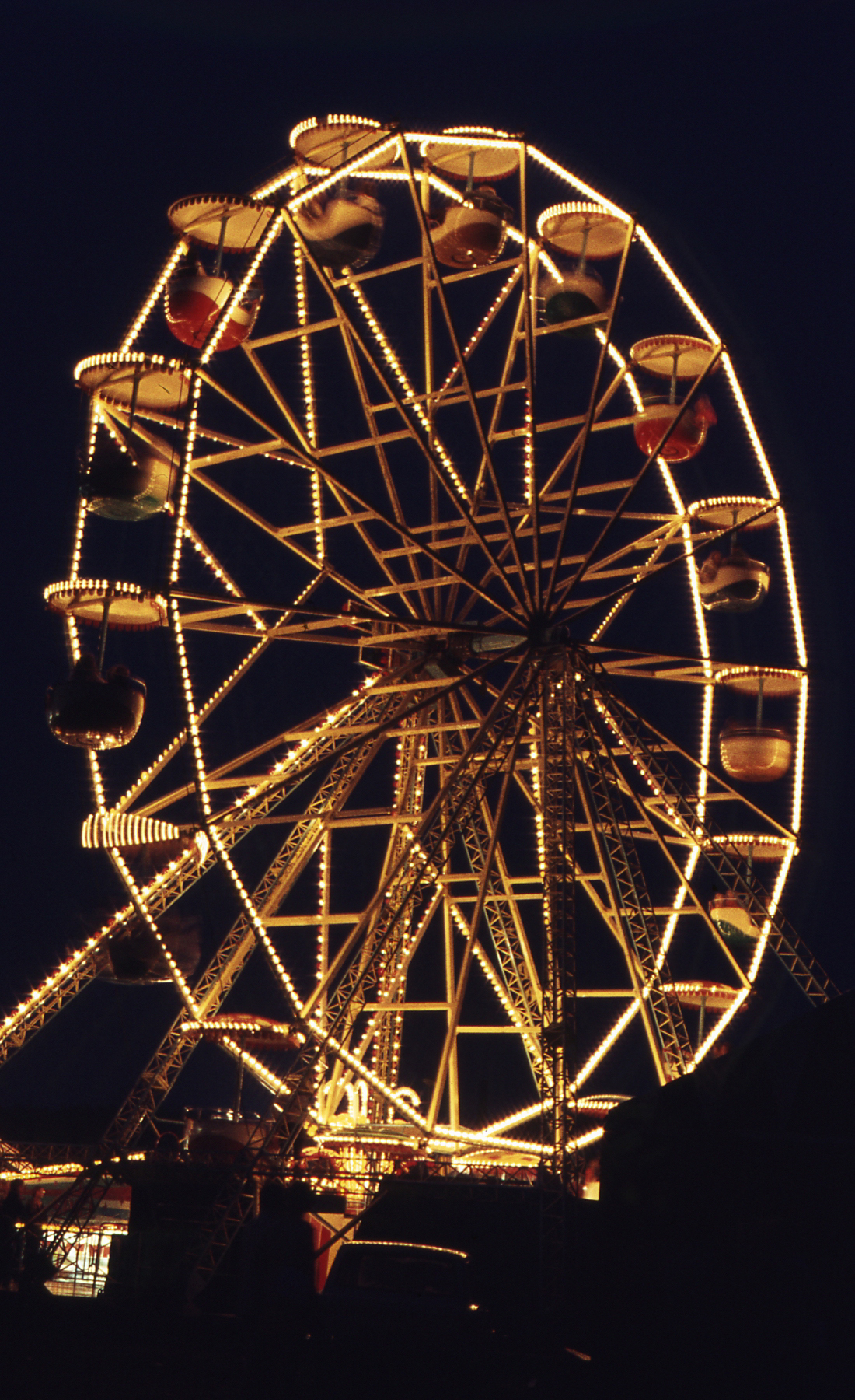 Ferries Wheel at Cologne, Germany 1974